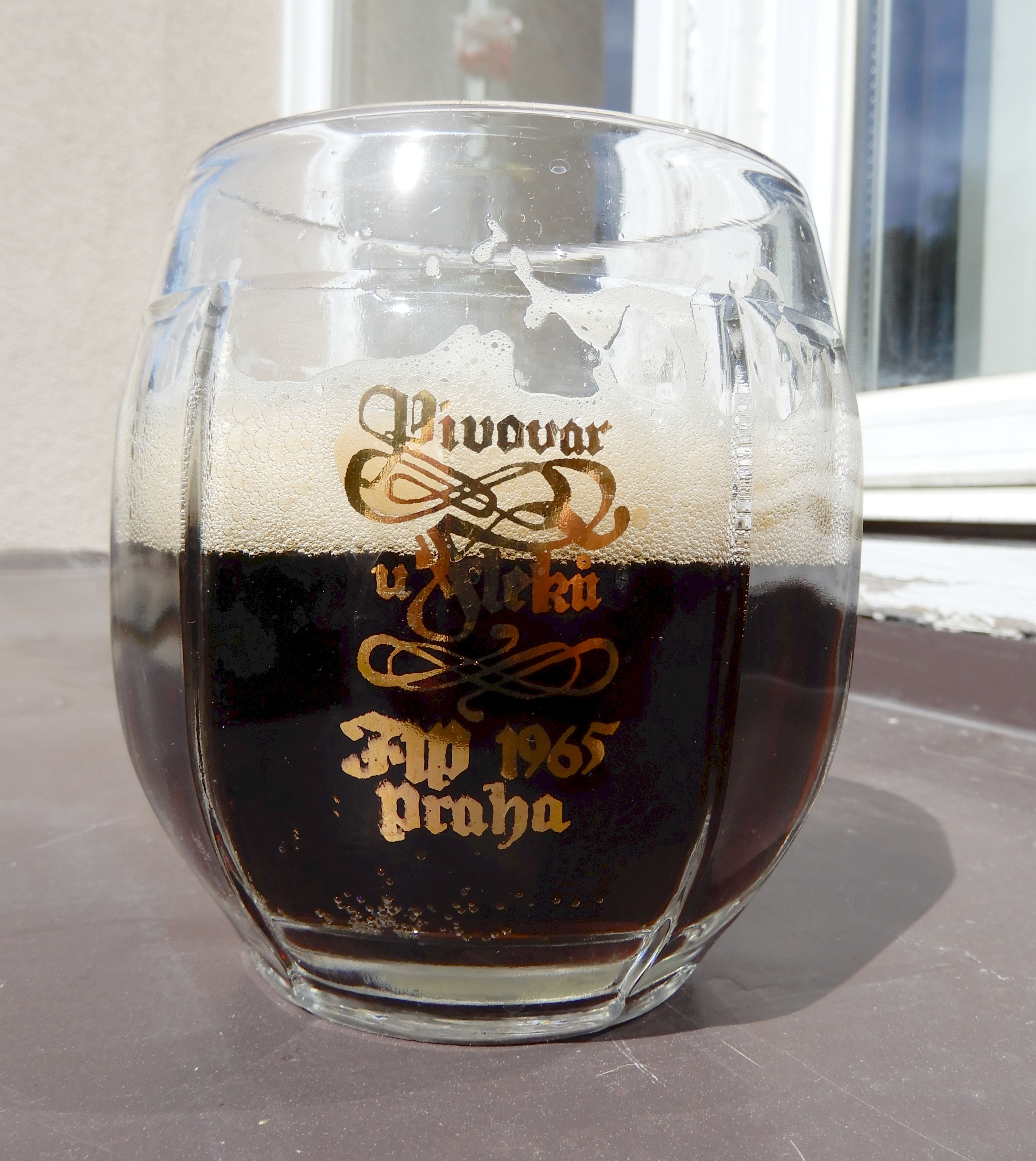 Memorial beer glass from Beerhouse U Fleků, Prague 1965